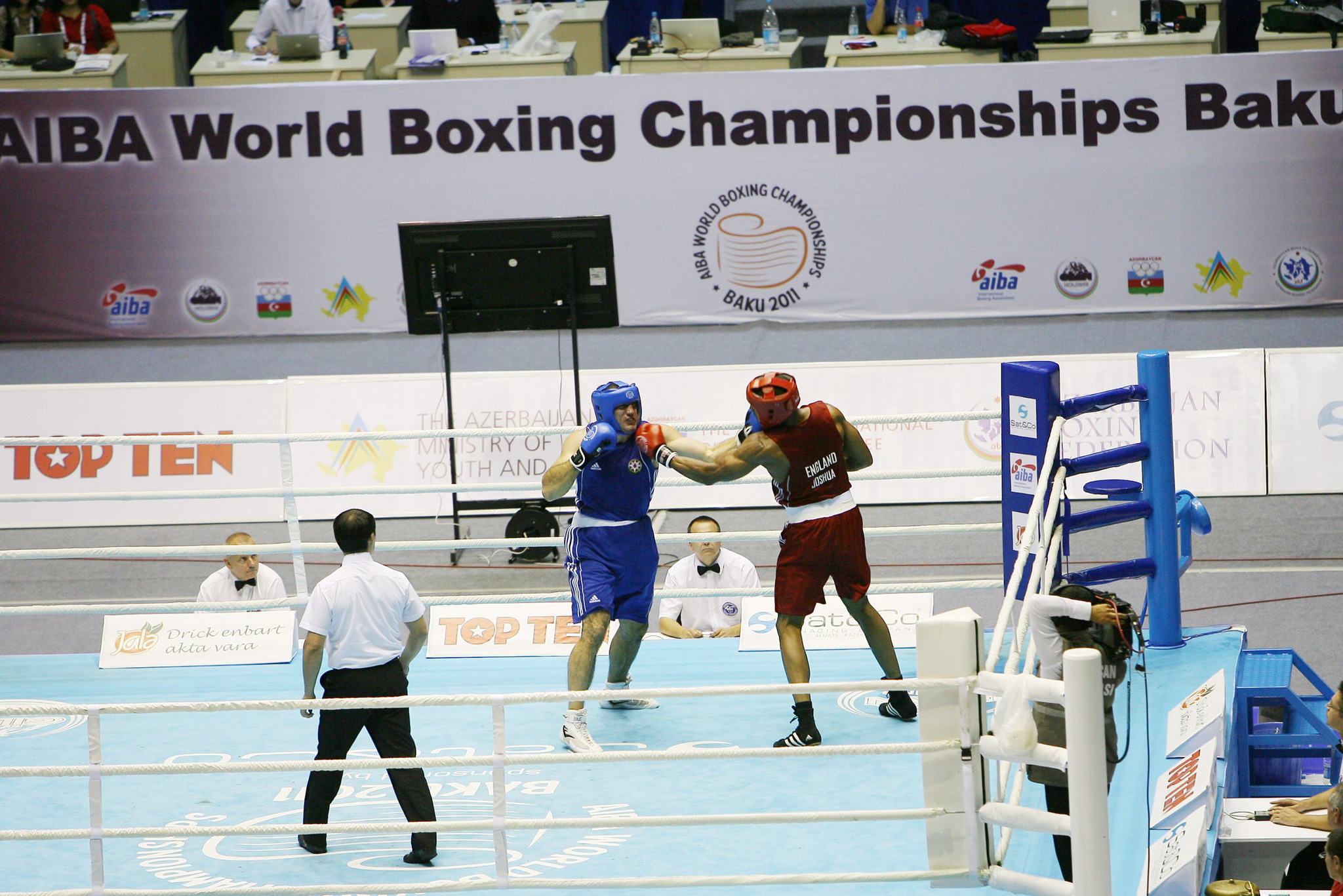 Final bouts of the 16th world boxing championship